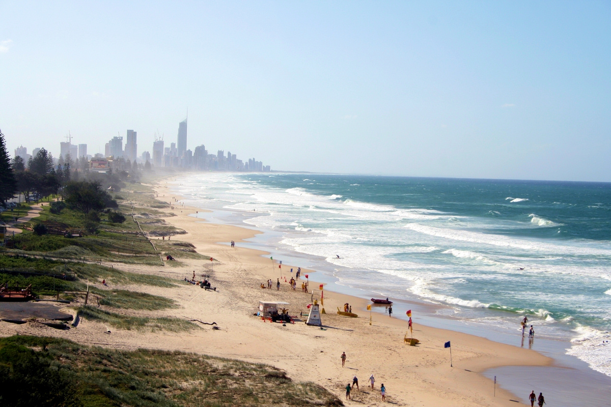 View of beach at Surfers Paradise with skyline.